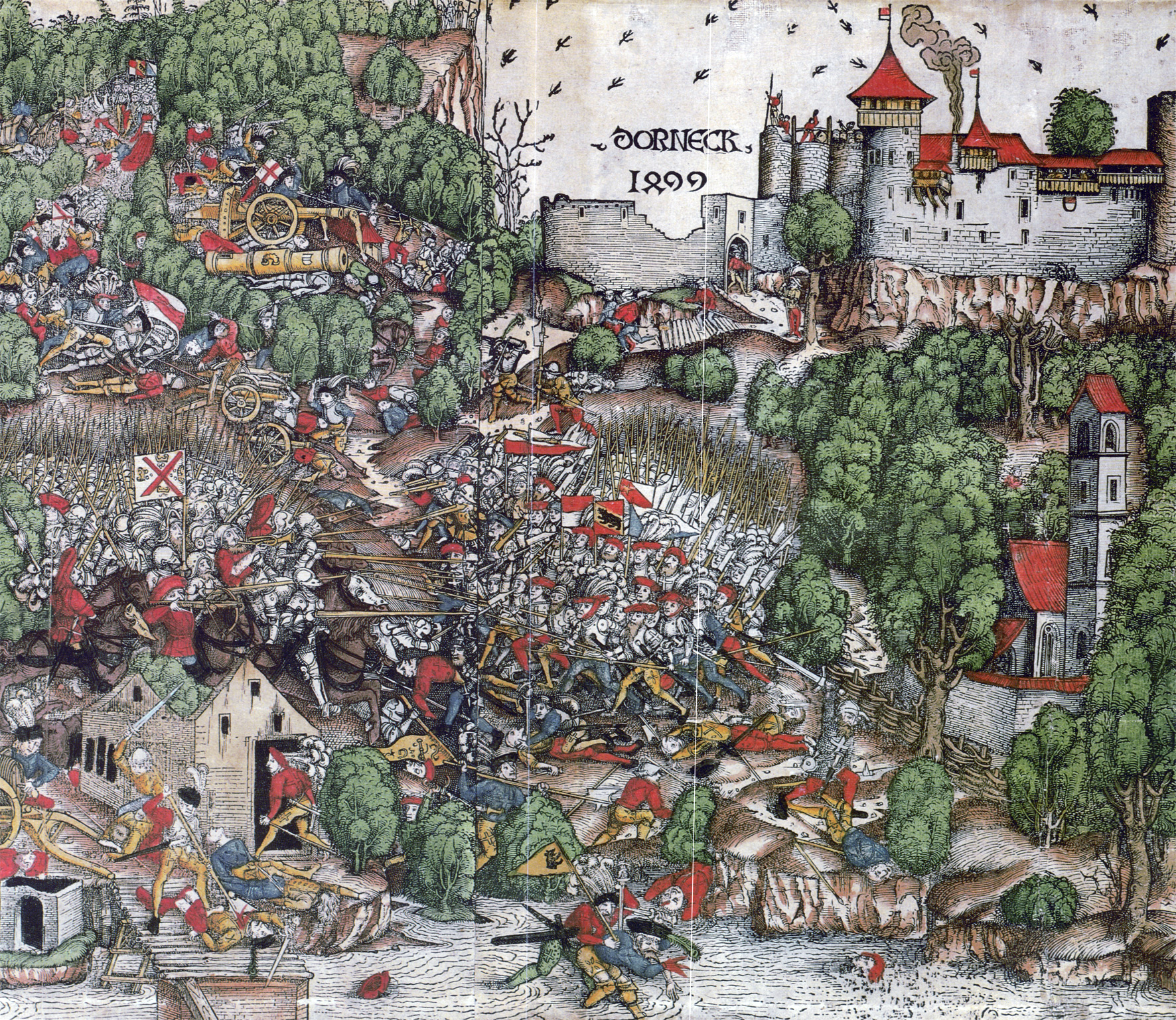 Detail of a contemporary woodcut of a the Battle of Dornach during the Swabian War 1499. The picture shows several phases of the battle: in the middle the main battle underneath the castle of Dorneck (on the left the cavalry of the Swabian League under the banner of the red Saint Andrew's Cross, on the right the Swiss infantry under the banners of Bern, Thun, Zurich and Solothurn); underneath the slaughtering of the fleeing troups by the Swiss at the river Birs